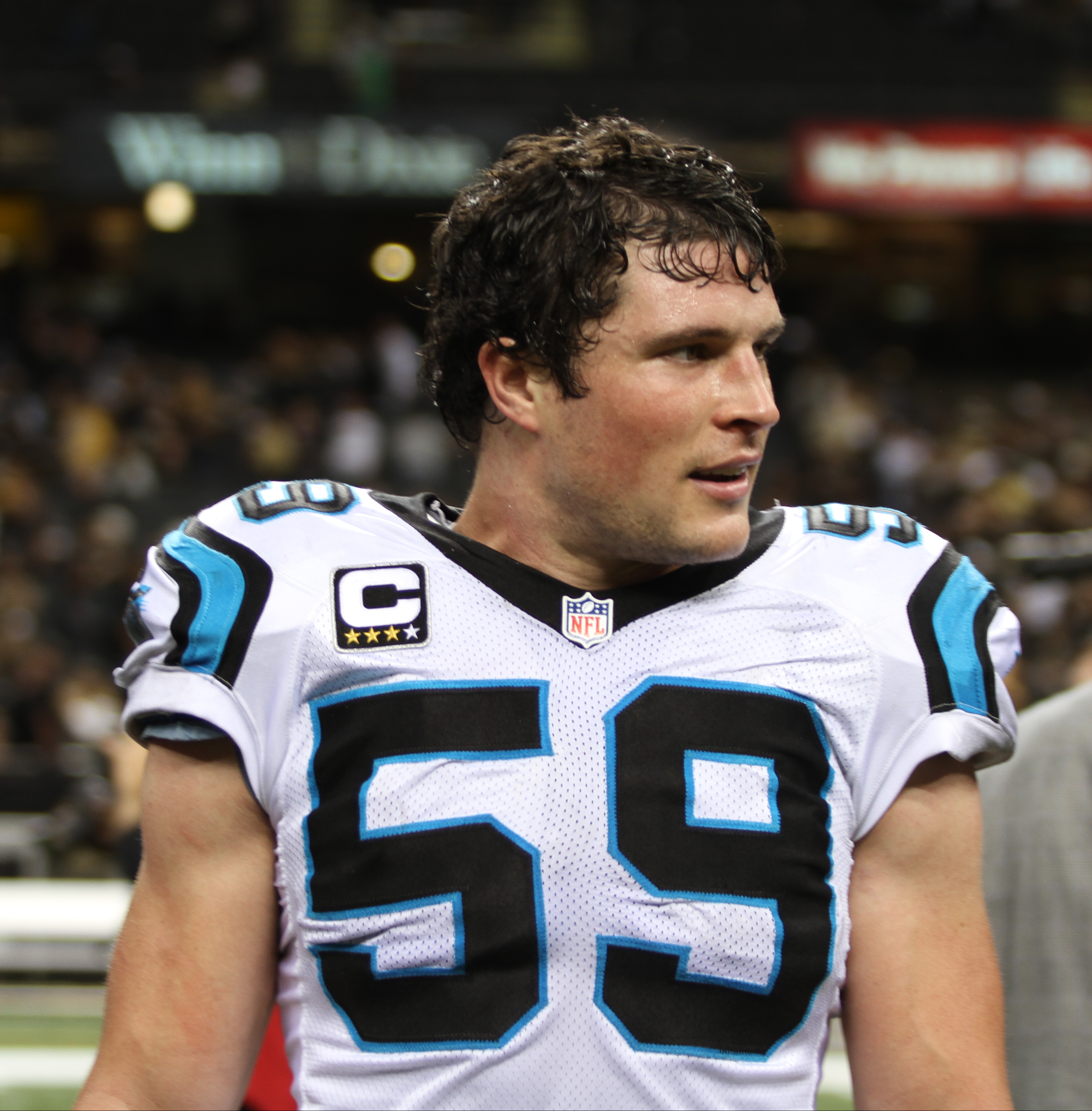 New Orleans Saints vs Carolina Panthers, December 6, 2015, Tammy Anthony Baker, Photographer